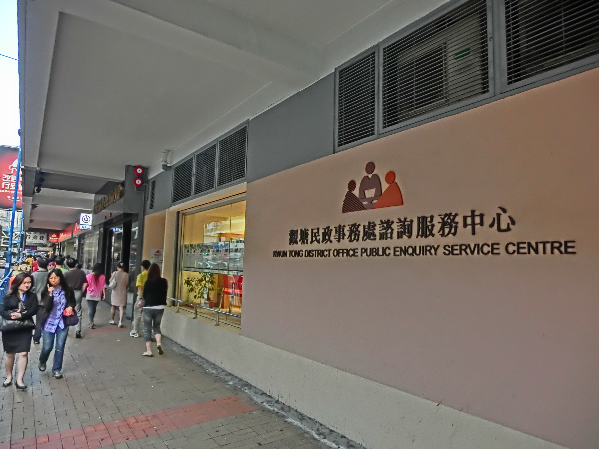 民政事務處諮詢服務中心 KTDO PESC Kwun Tong District Office Public Enquiry Service Centre